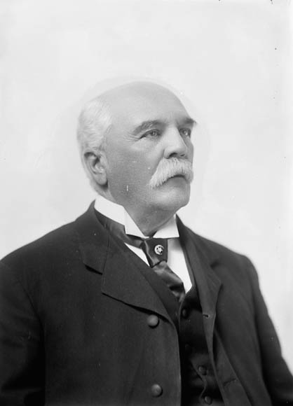 Michel Esdras Bernier, (Deputy Chief Commissioner) (Board of Railway Commissioners)